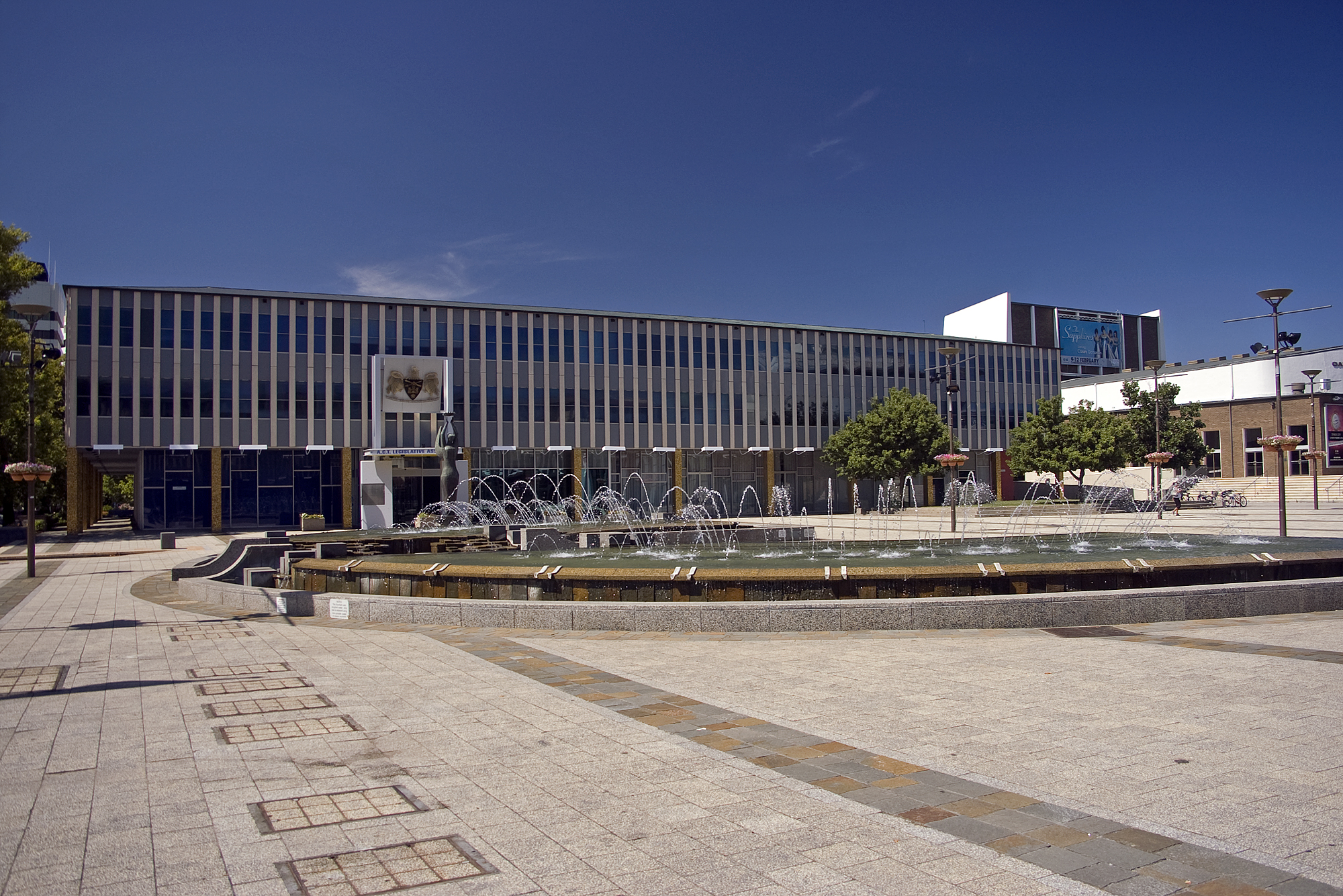 Australian Capital Territory Legislative Assembly viewed from Civic Square in Civic.